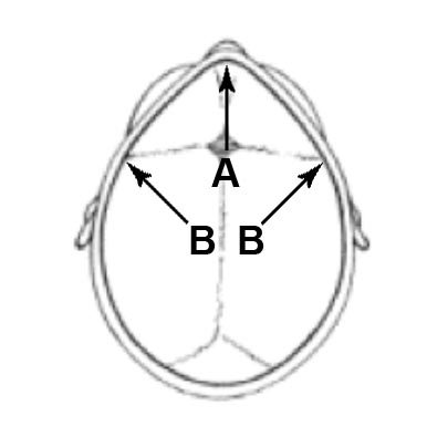 Location of the incisions in fronto-supra-orbital advancement